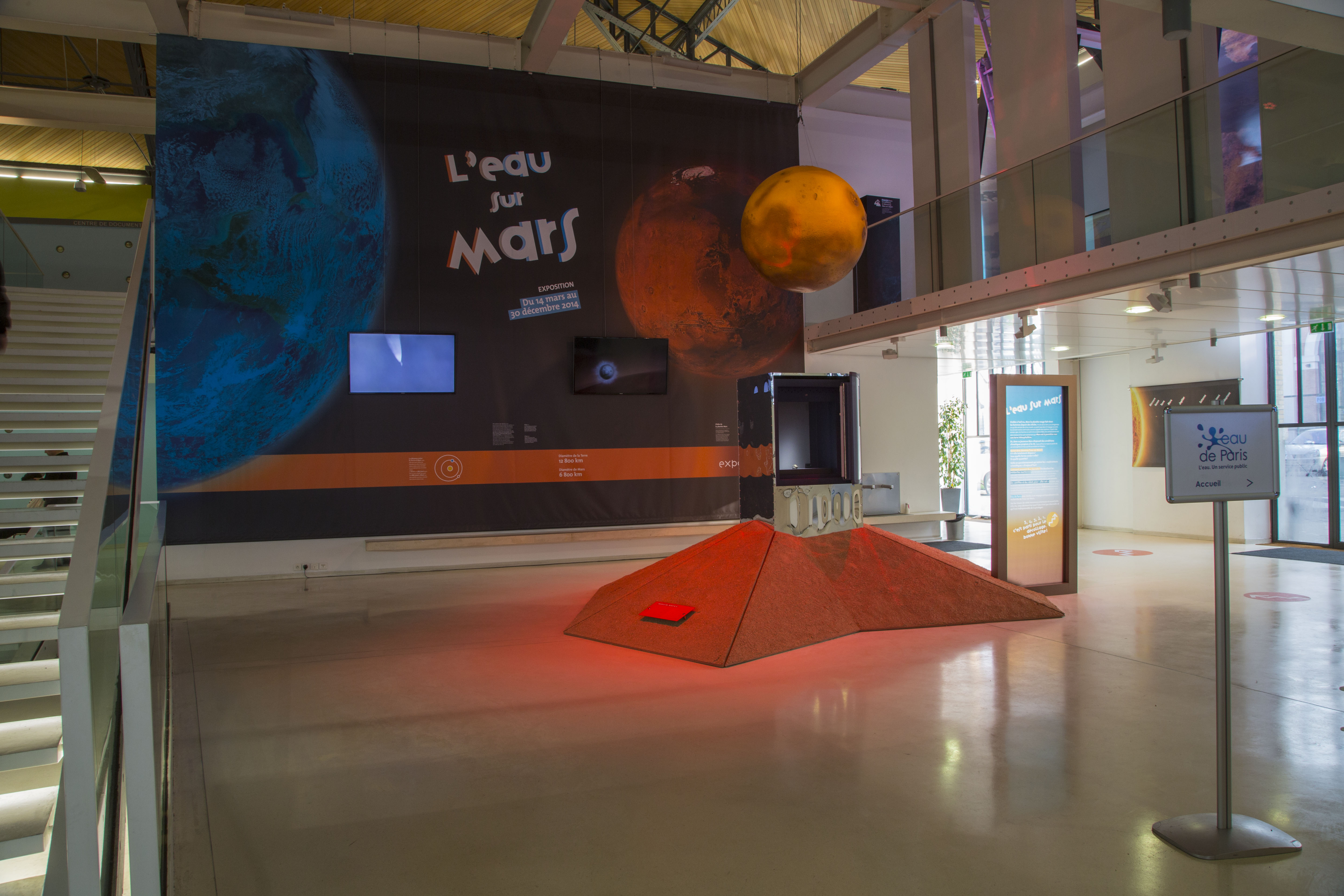 Exhibition L'eau sur Mars Pavillon de l'eau 2014